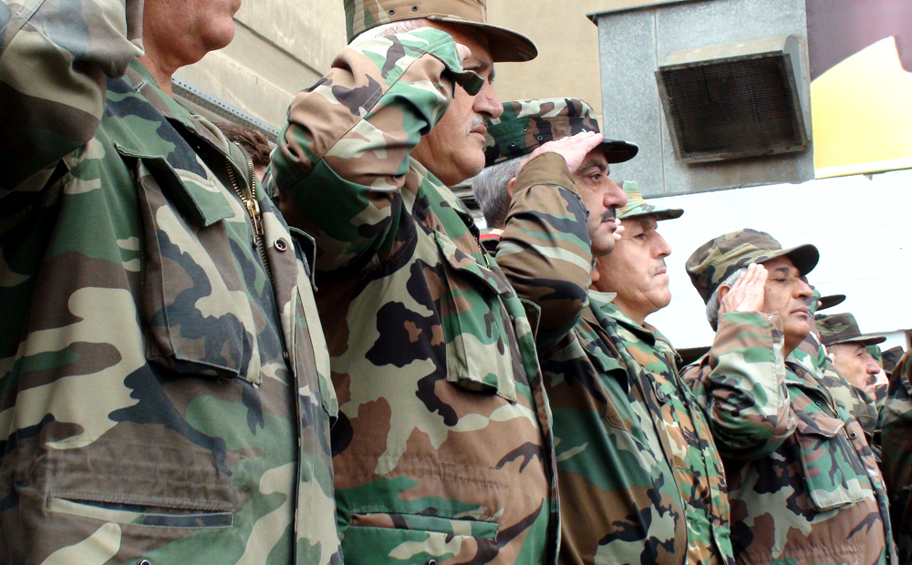 The upper ranks of the Syrian military has been largely loyal. Photo taken Jan. 17, 2012. Photo taken by VOA Middle East correspondent Elizabeth Arrott while traveling through Damascus with government escorts.